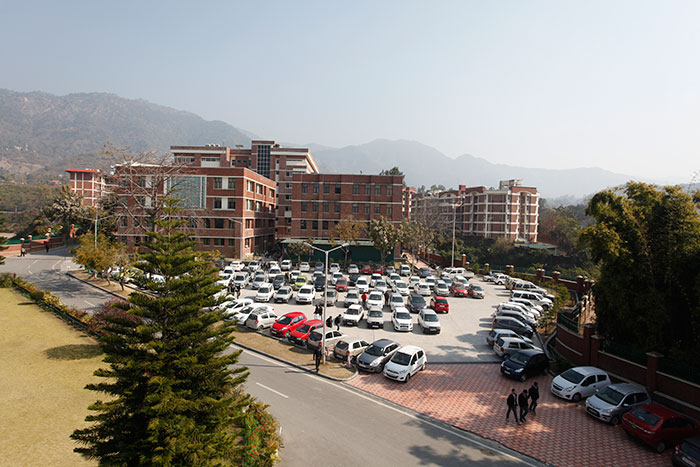 Car Parking at DIT campus can be seen in the picture.